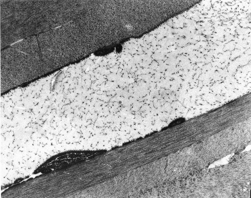 Congenital stromal dystrophy. Transmission electron microscopy of the corneal stroma showing normal collagen lamellae separated by abnormal randomly distributed collagen filaments in an electron-lucent extracellular matrix (Reproduced with permission from Bredrup et al.[101]). Klintworth Orphanet Journal of Rare Diseases 2009 4:7